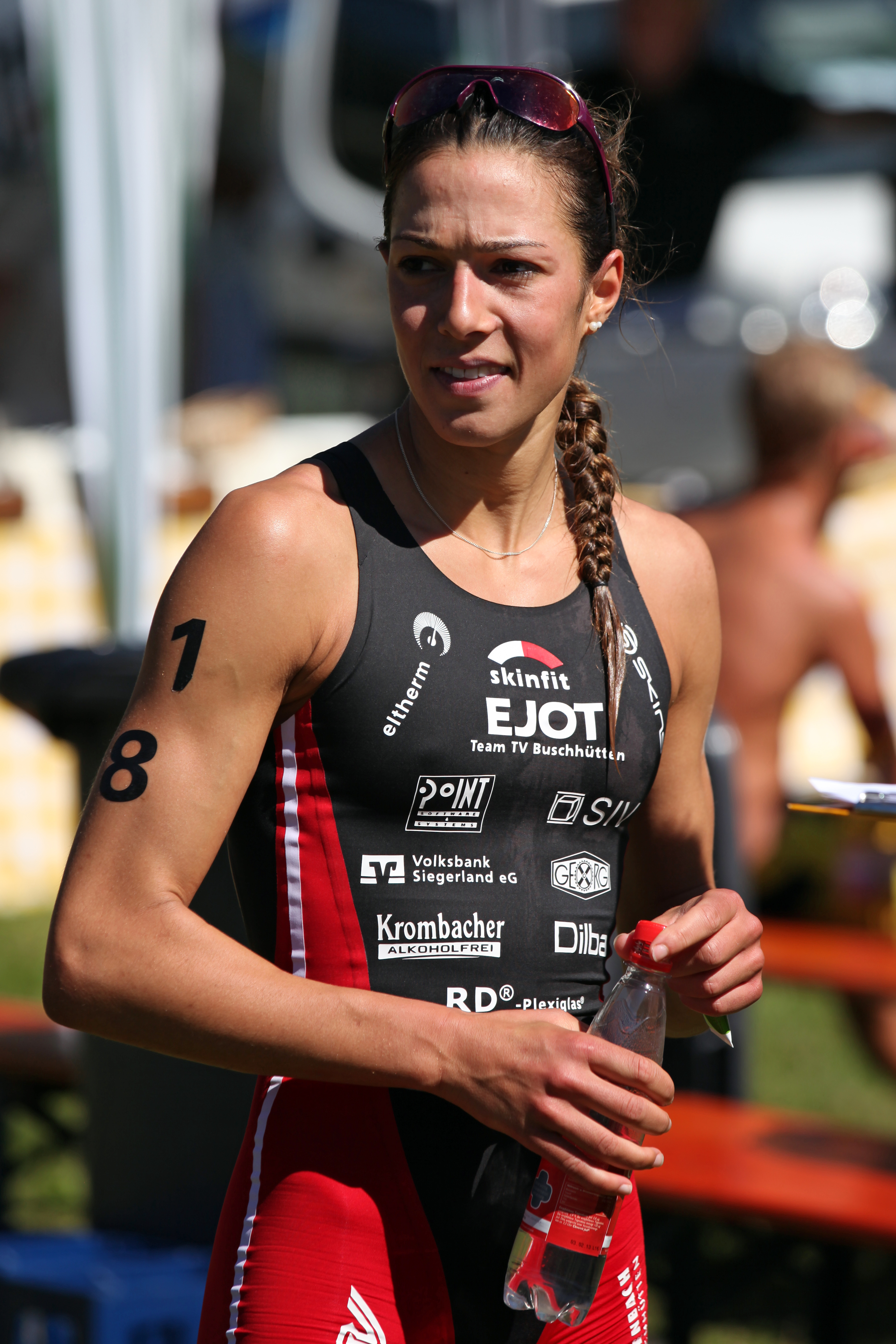 Charlotte Morel, winner of the Schliersee Triathlon, the Grand Final of the German Bundesliga.